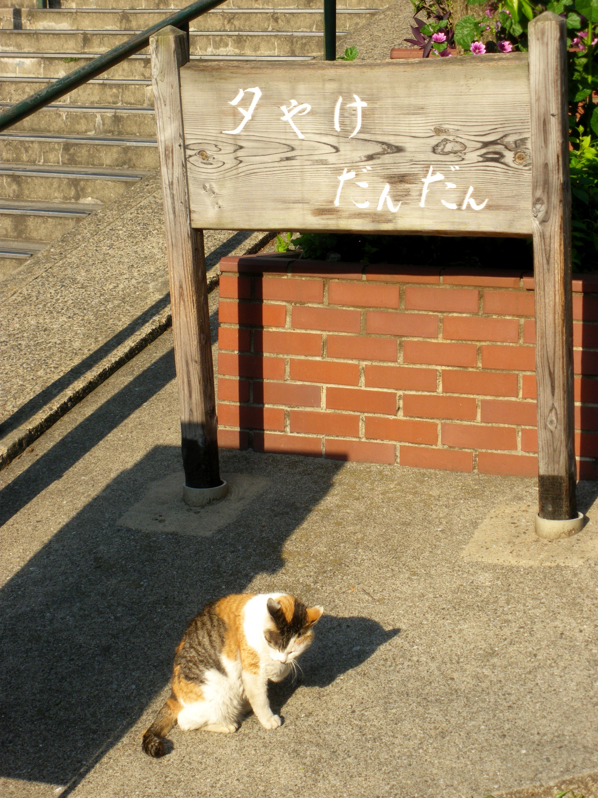 A photo of "Yuyake-dandan"(Stairs at Yanaka ginza shopping street) with a calico cat,Yanaka,Taito-ku,Tokyo,Japan.